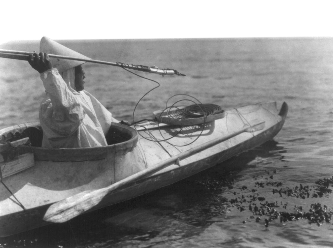 LOC description:Eskimo man seated in a kayak prepares to throw spear.